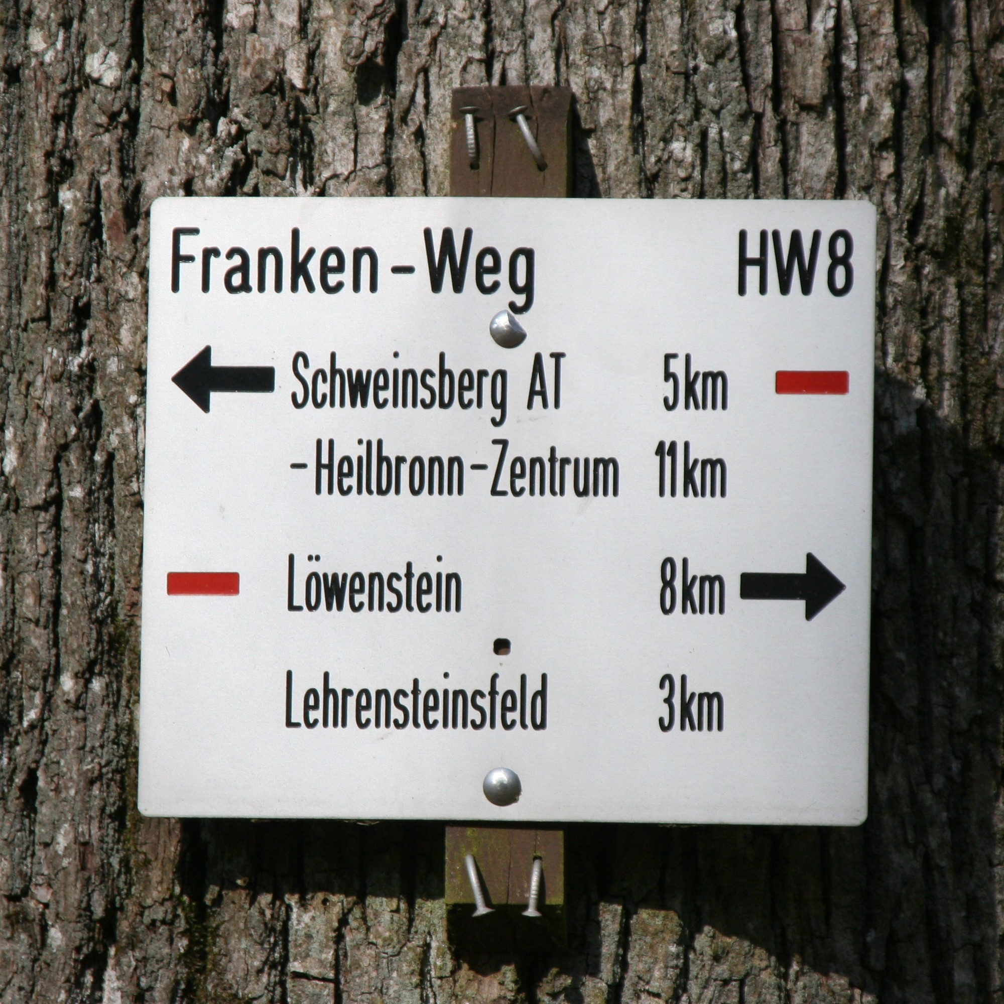 Sign of the hiking trail Frankenweg in Heilbronn below the Reisberg